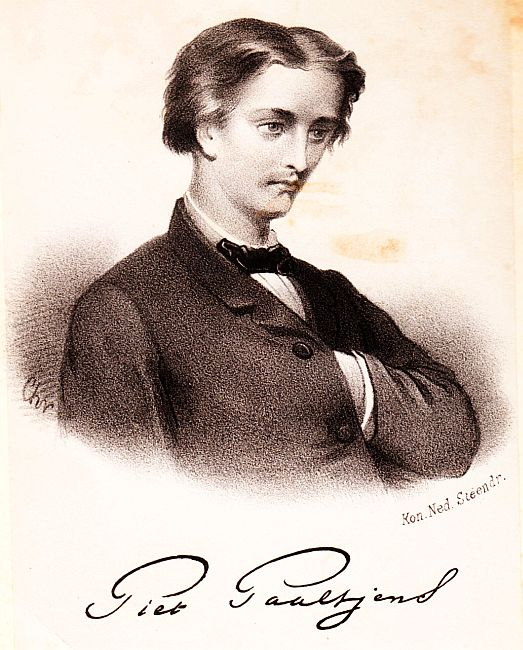 Lithographed portrait of Piet Paaltjens, the pen-name of the foremost Dutch humorous poet of the 19th century, François HaverSchmidt, who had been happy as a Leyden student and was unhappy as a middle-aged minister.